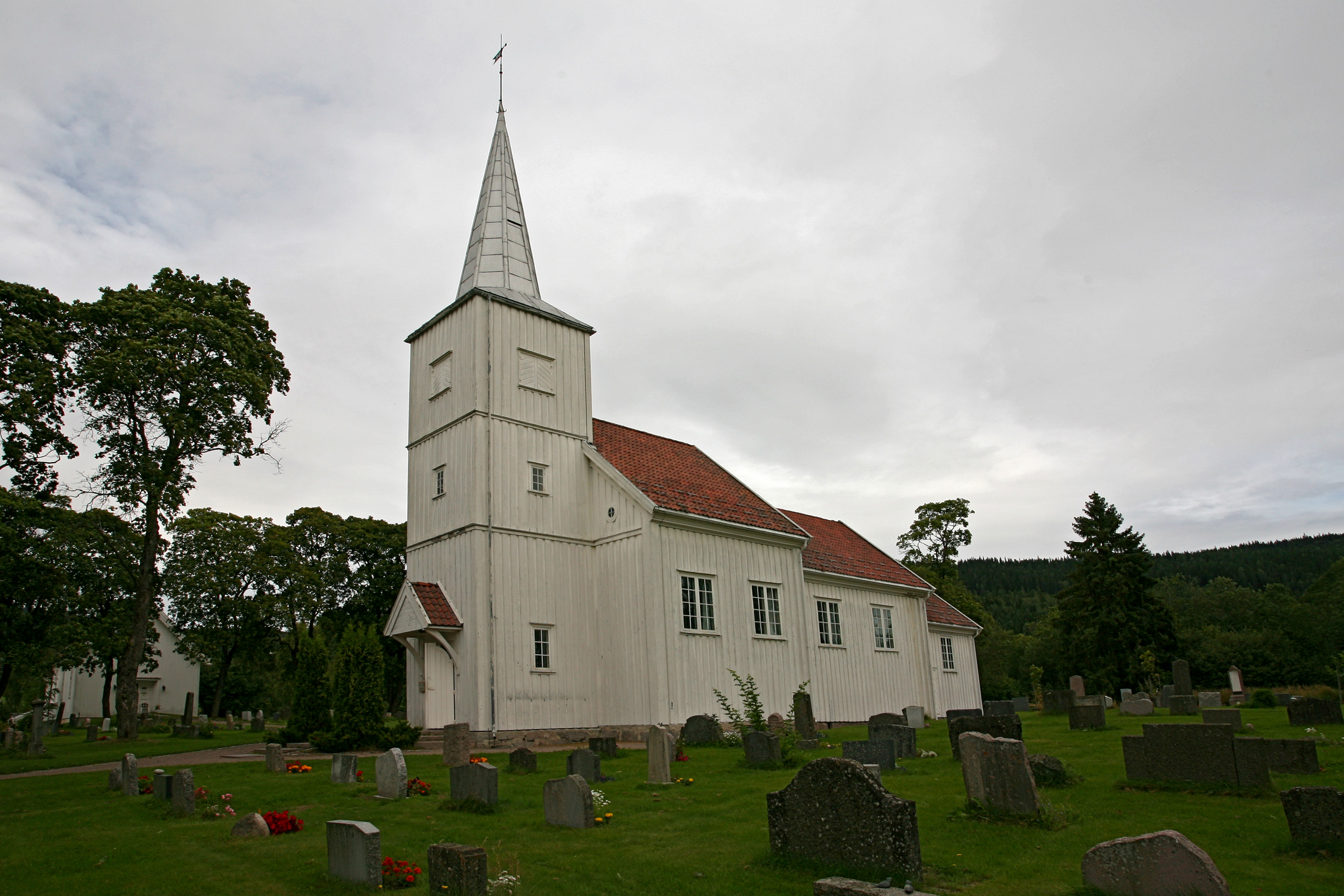 Picture of Hakadal kirke (Akershus - Norway)